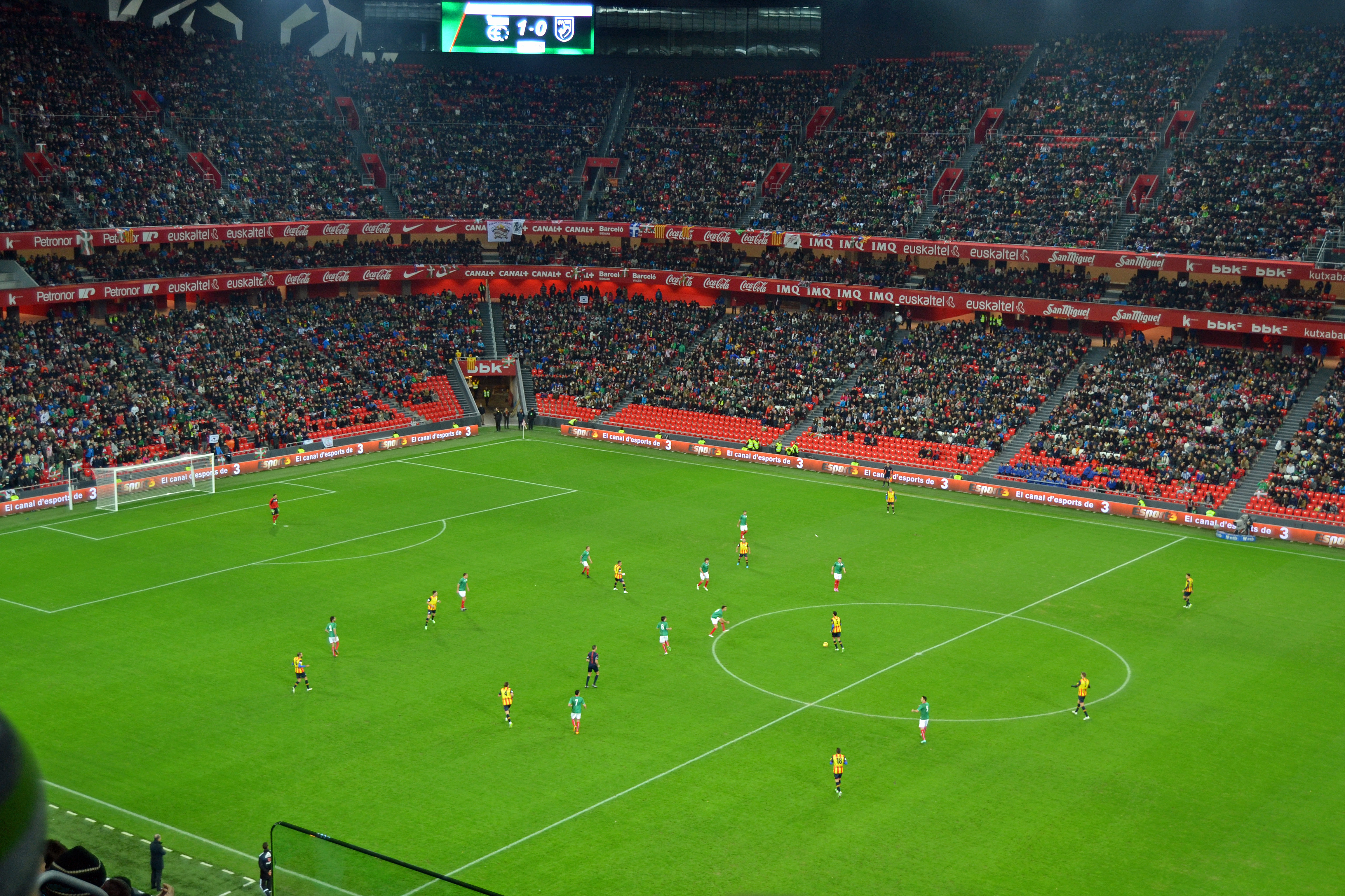 Basque Country - Catalunya. San Mames, Bilbao, Basque Country. 28th december 2014